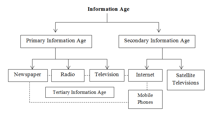 Three stages of the Information Age. This chart included in Suroshana Iranga's Social Media Culture Book.